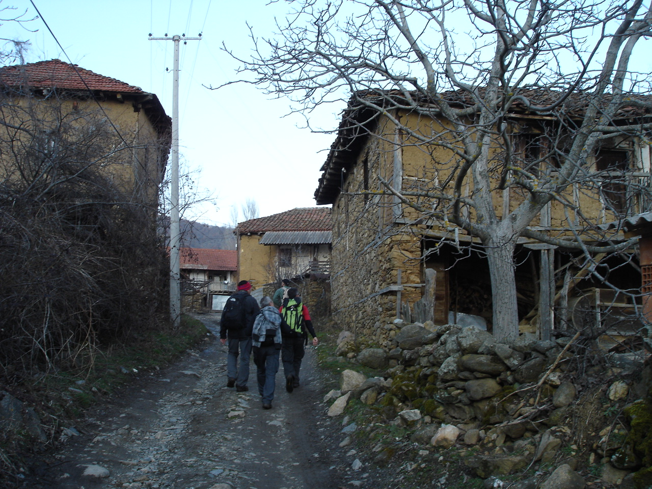 village of Strovija in Dolneni Municipality, near Prilep, Macedonia